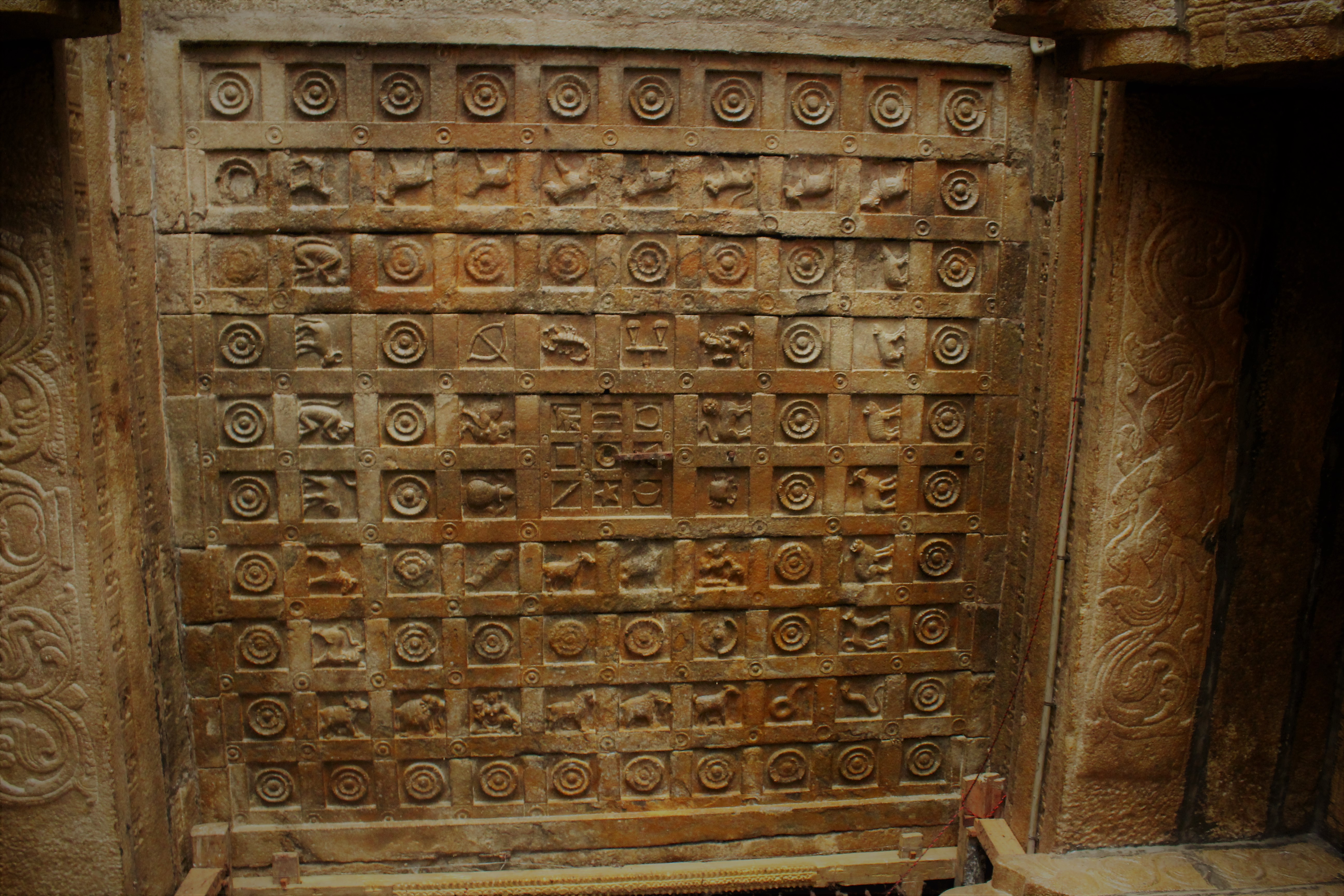 Kazhugumalai